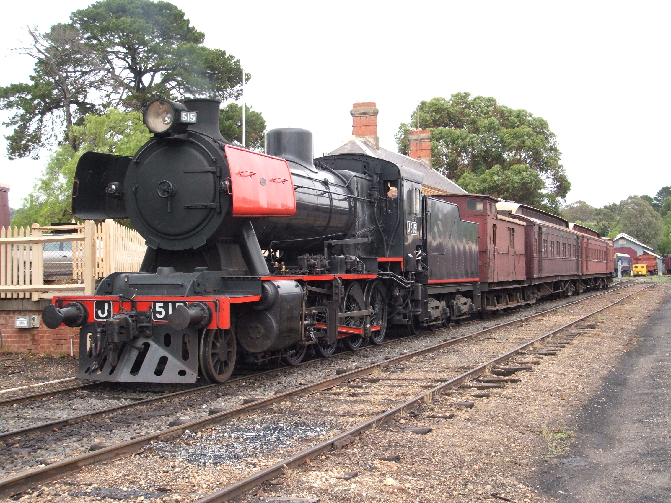 Former Victorian Railways J class steam locomotive J 515 awaits departure from Maldon railway station on the Victorian Goldfields Railway, a preserved former Victorian Railways branch line, 20th January 2007.